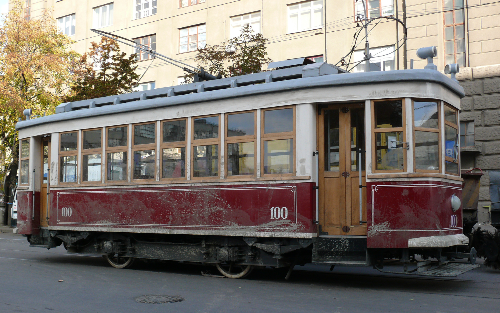 Old tram from 1920s in Kharkov.